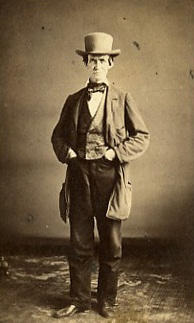 Congressman Timothy C. Day